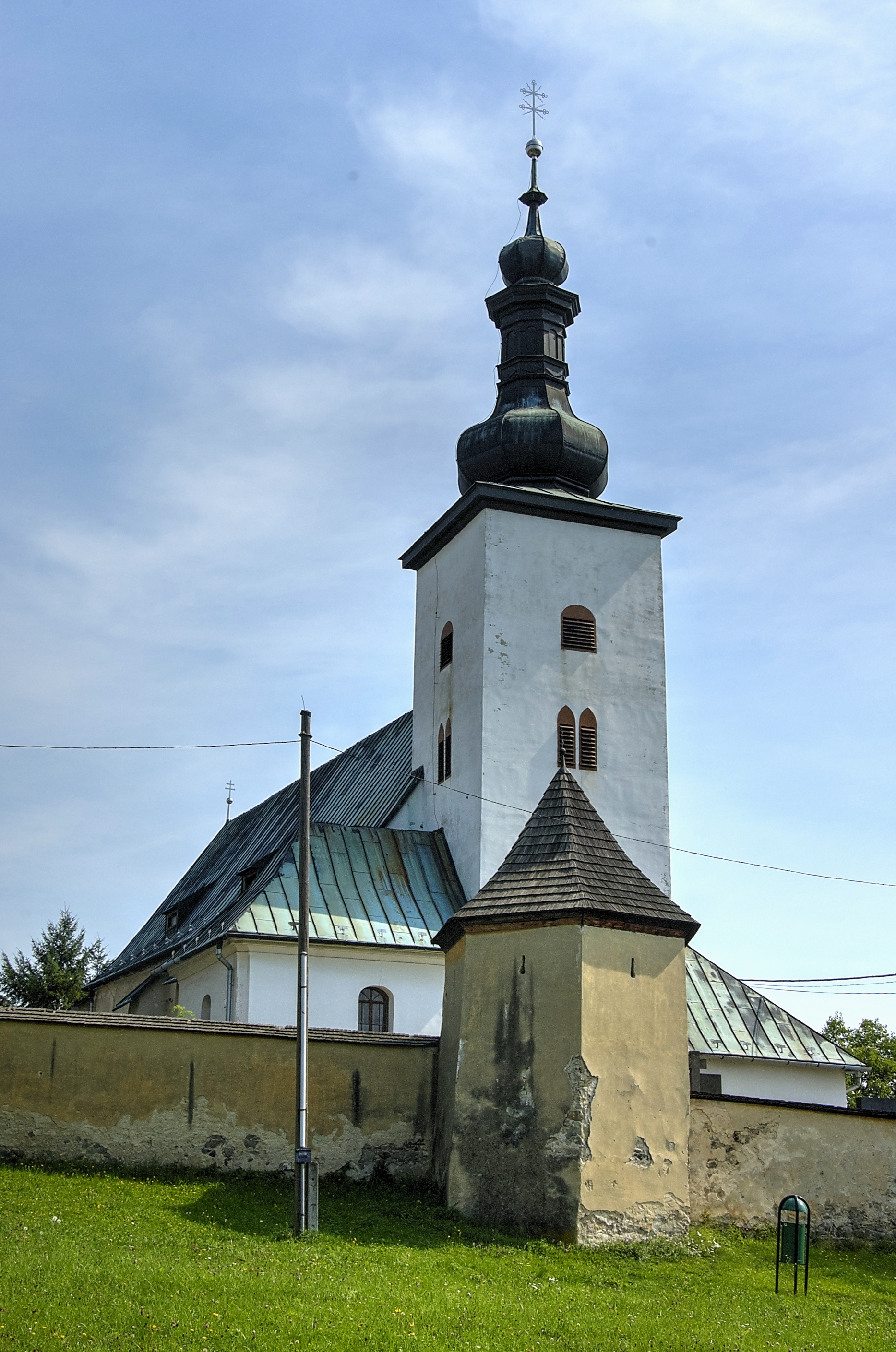 Mariánsky kostol, the oldest church in Prievidza, built 1260